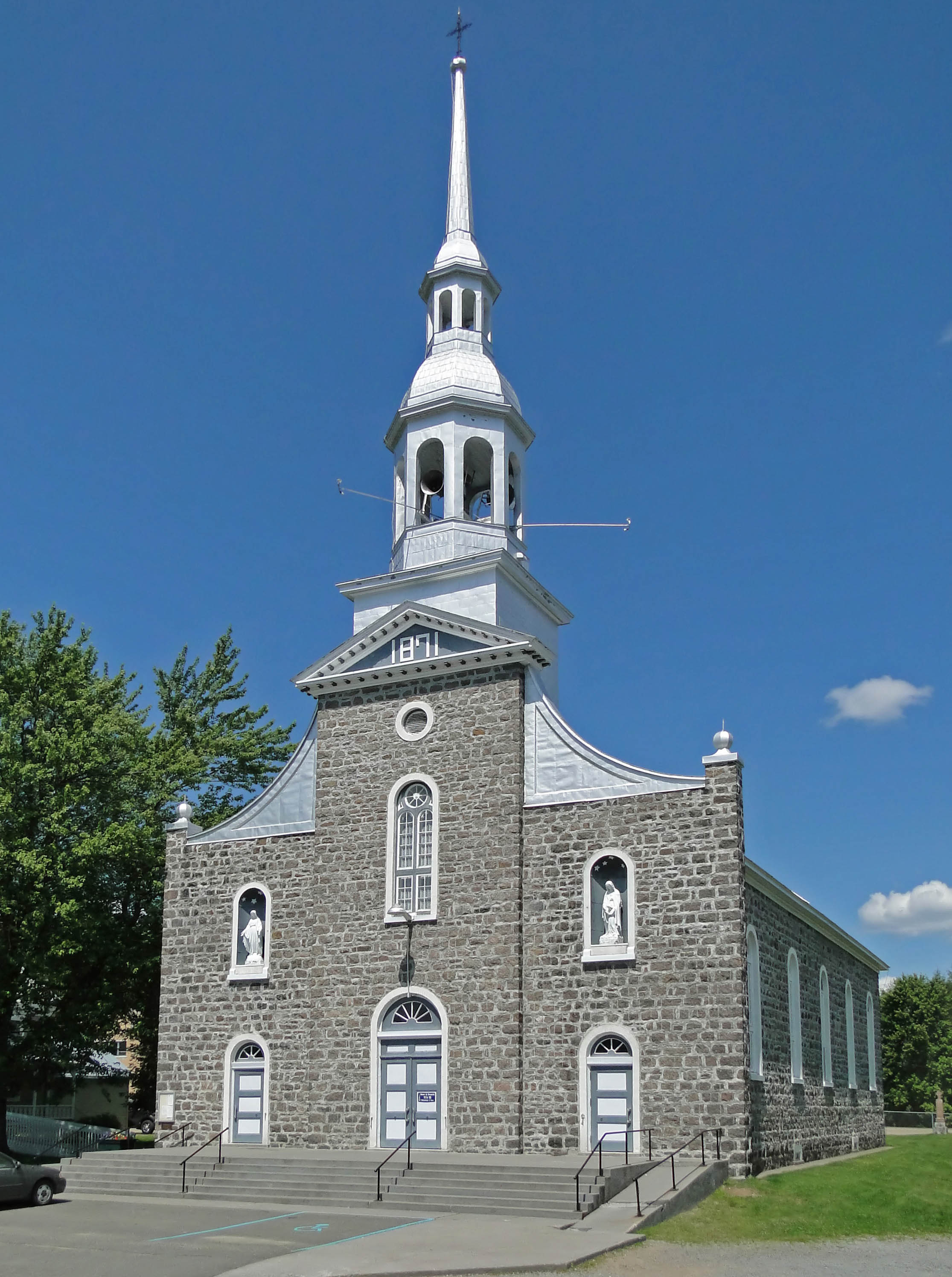 Saint-Alexis Church, Saint-Alexis-des-Monts, province of Quebec, Canada